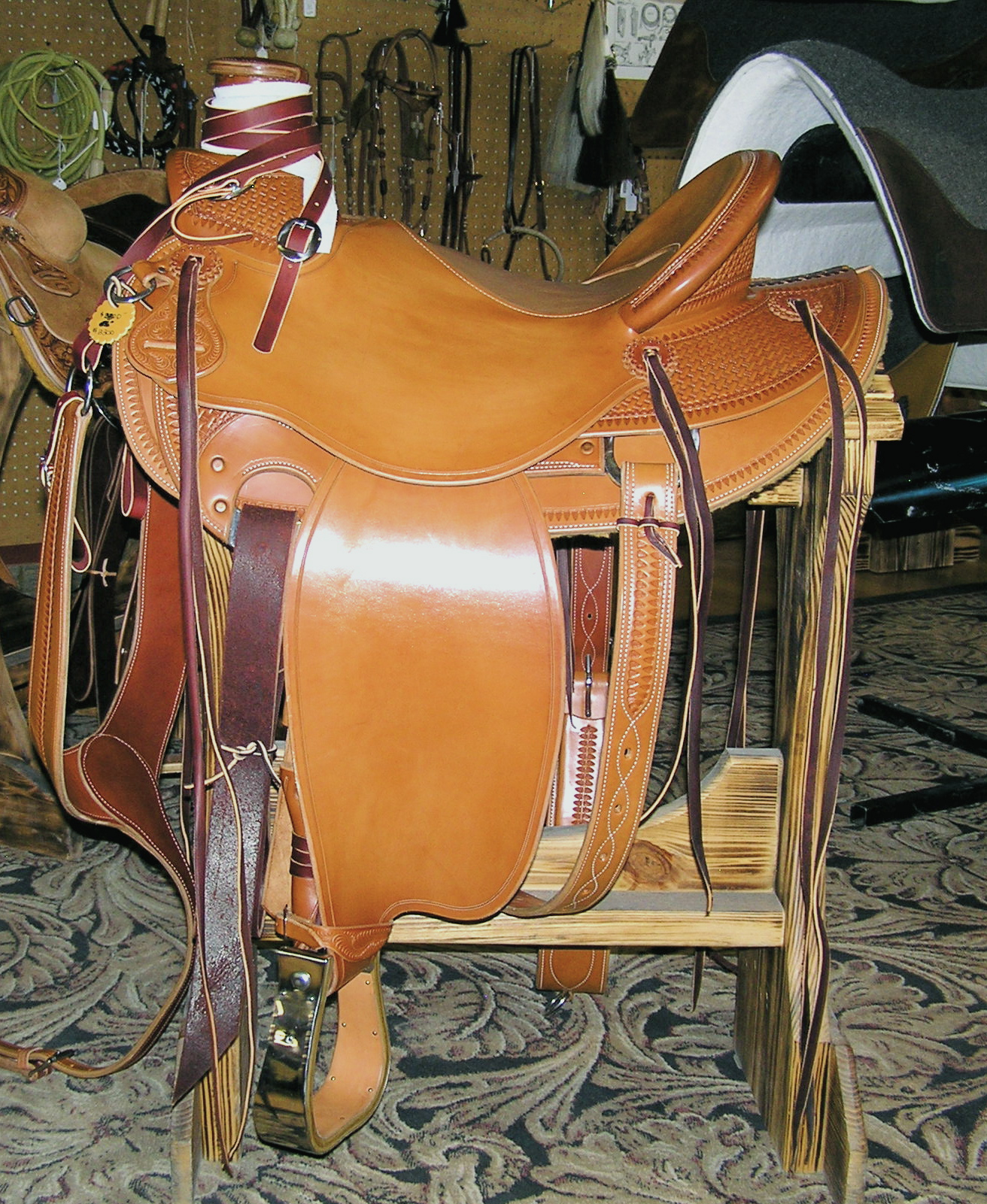 A classic working "Wade" saddle made by Three Forks Saddlery. 15 inch ladies' tree. Image taken with staff permission at Three Forks Saddlery, Three Forks, MT